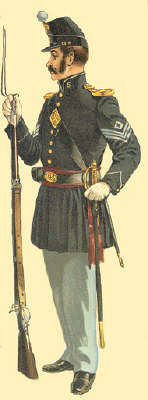 A plate showing the French-influenced uniform of the United States Army of 1858. Which was worn by soldiers of the Union Army during the American Civil War.